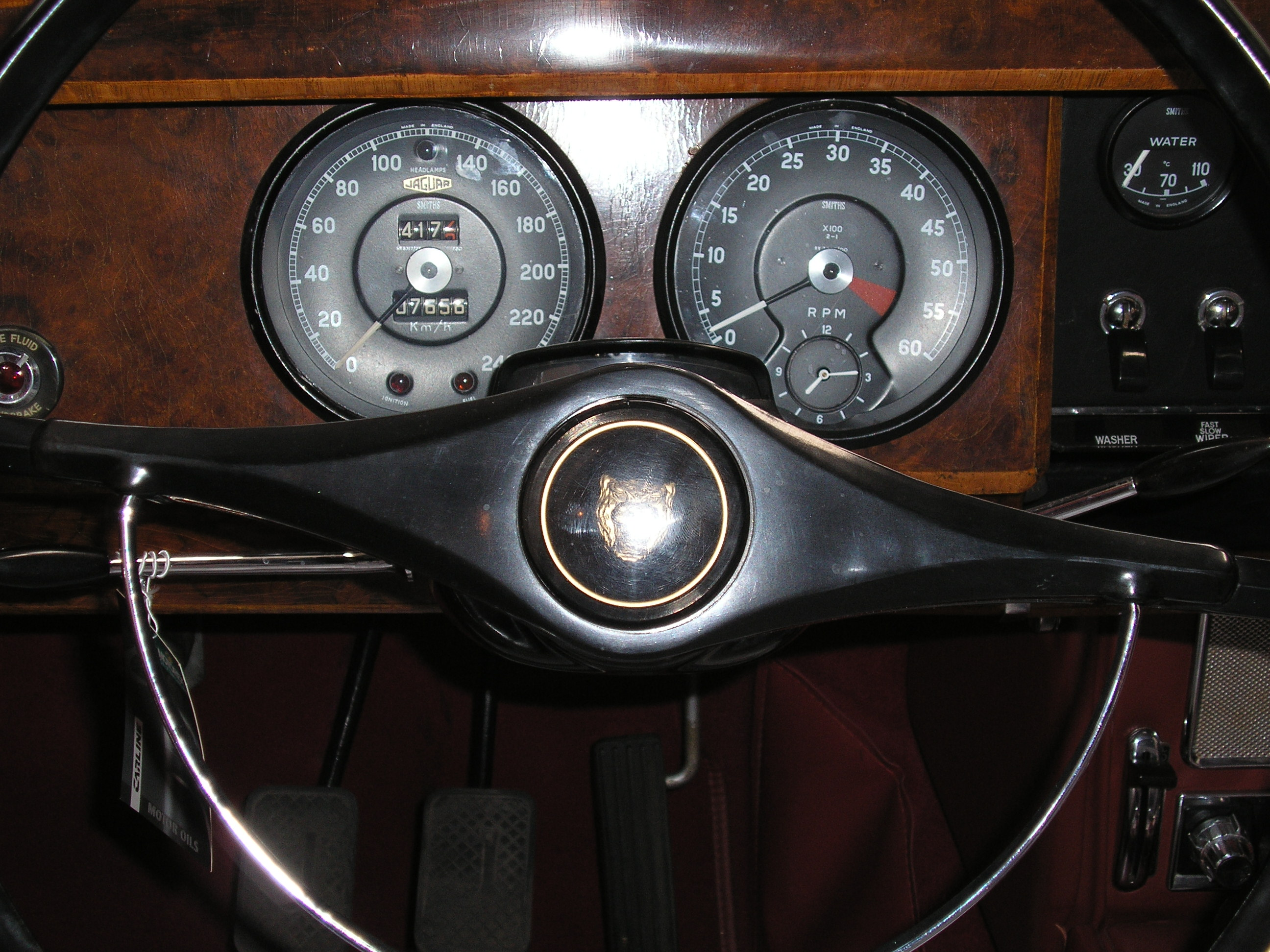 Jaguar MK2 3.8 Litre interior view